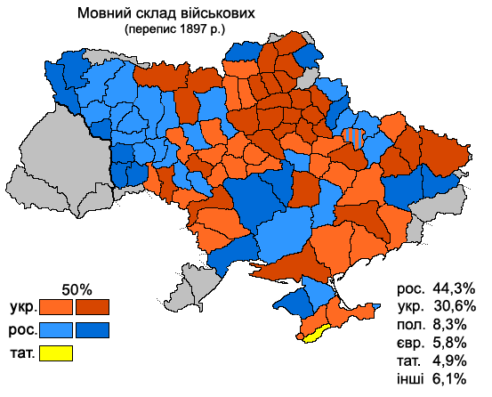 Languages of militaty personnel, 1897 census